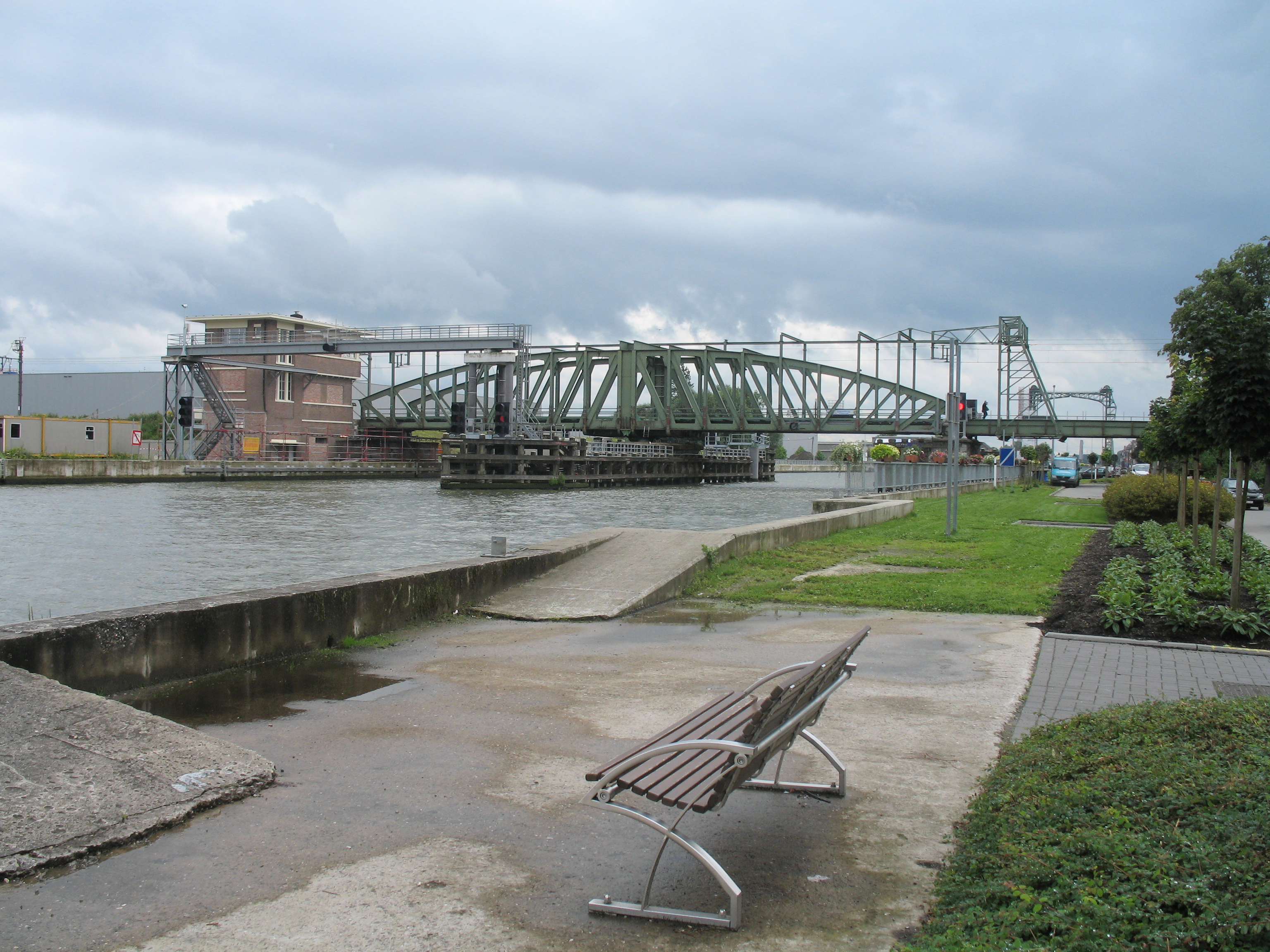 Railway bridge over the Brussels-Scheldt canal